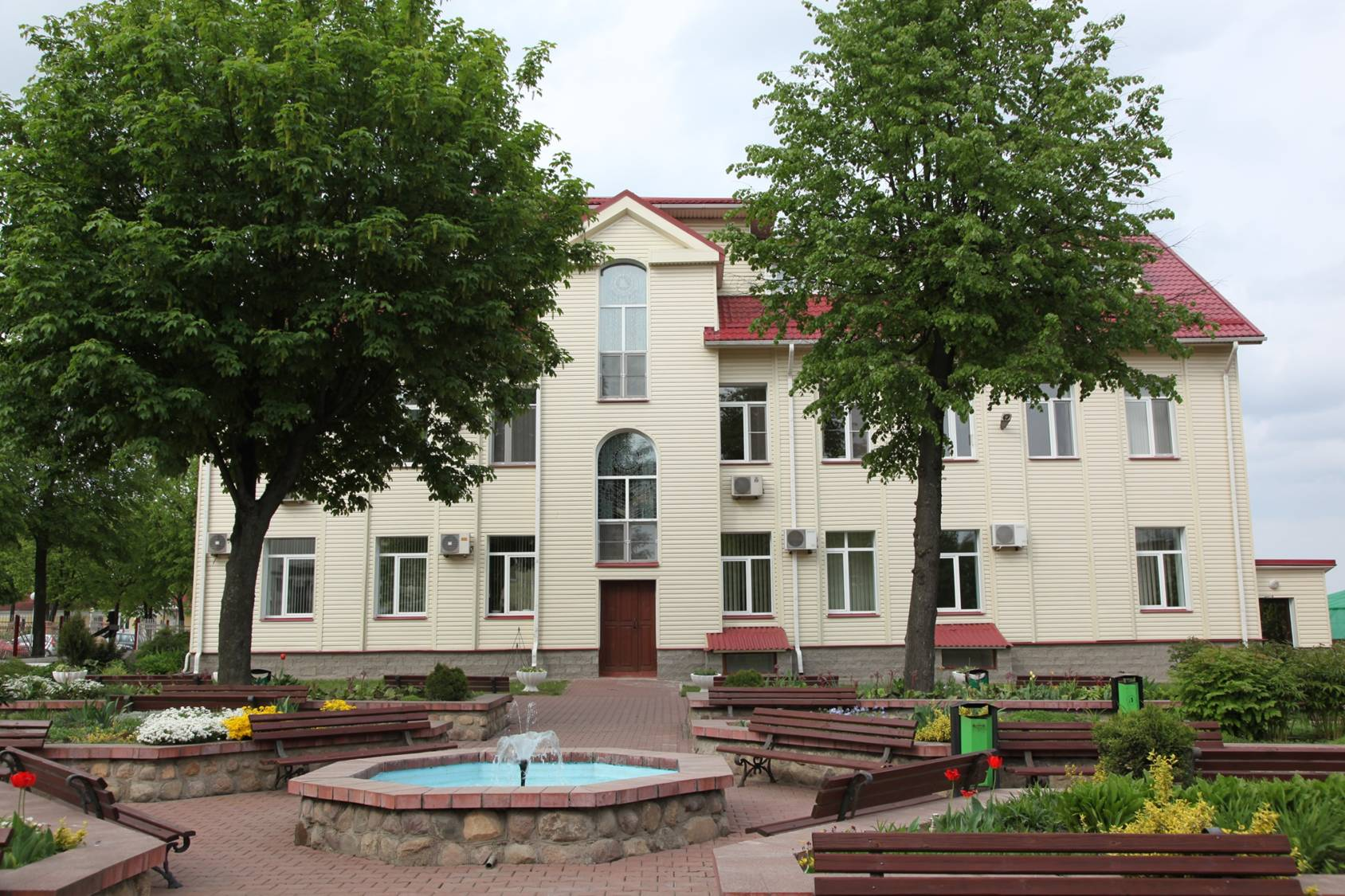 Picture of the Minsk Institute of Management 1 building